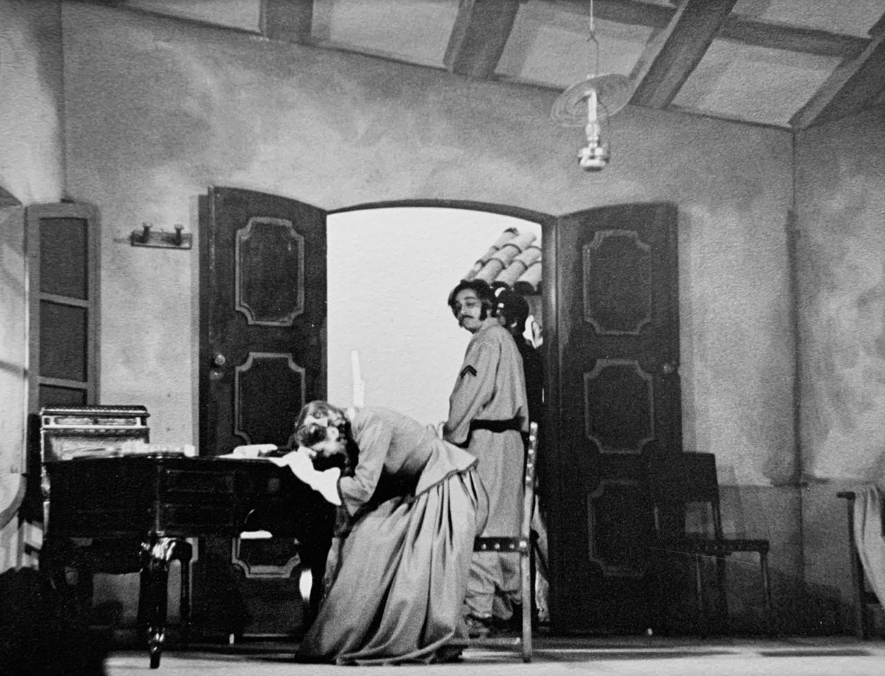 Luisa Vehil y Miguel Faust Rocha in "El Sargento Palma" (1942), Teatro Cervantes, Buenos Aires